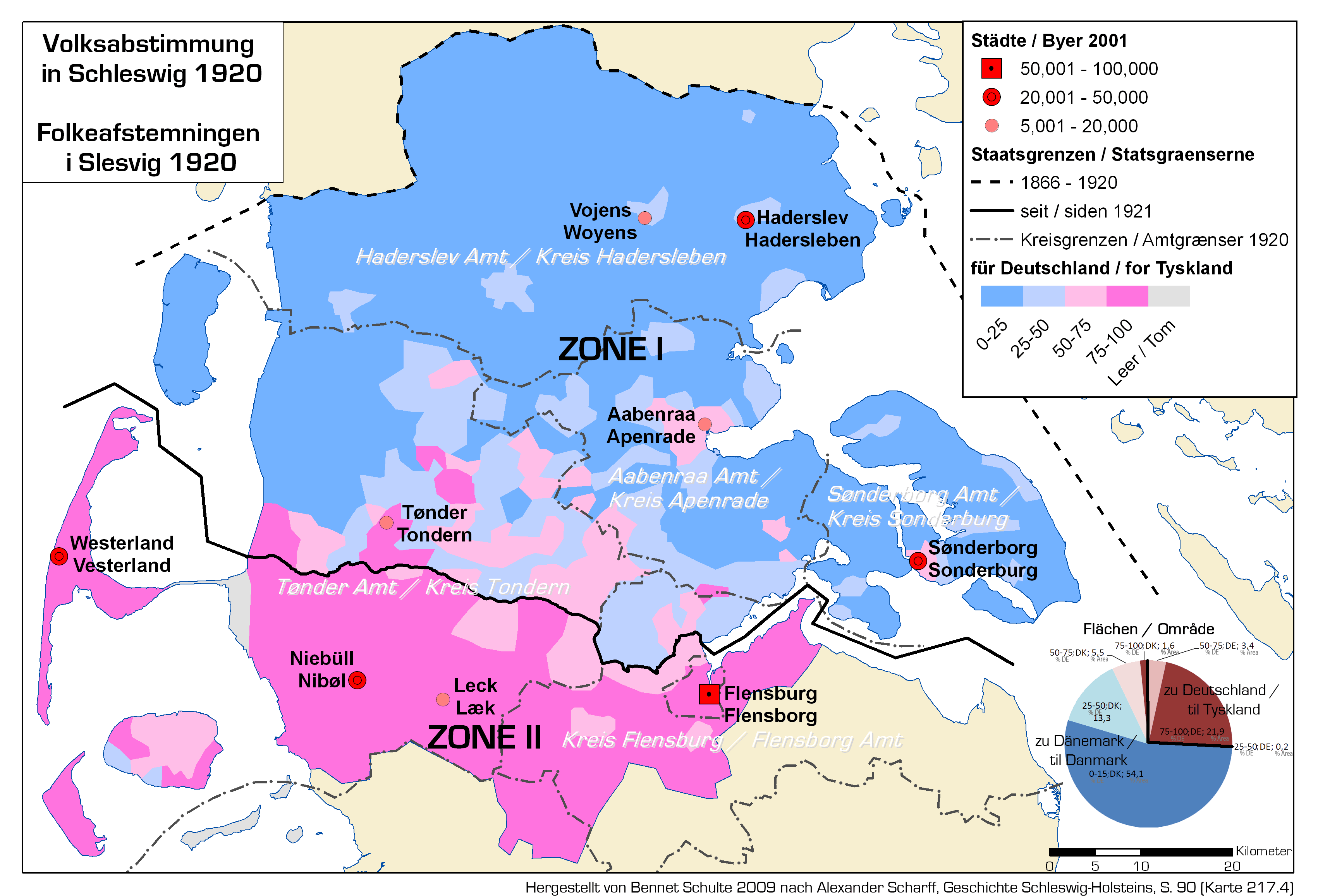 Results of the Schleswig Plebiscites 1920. This map shows results per polling station, and which is the traditional way of showing the election result in German publications. In Danish newspapers and government publications, votes were counted for per parish. When counted per parish, most parishes in the mixed region of zone I shows small Danish majorities (in the 51-65% range).